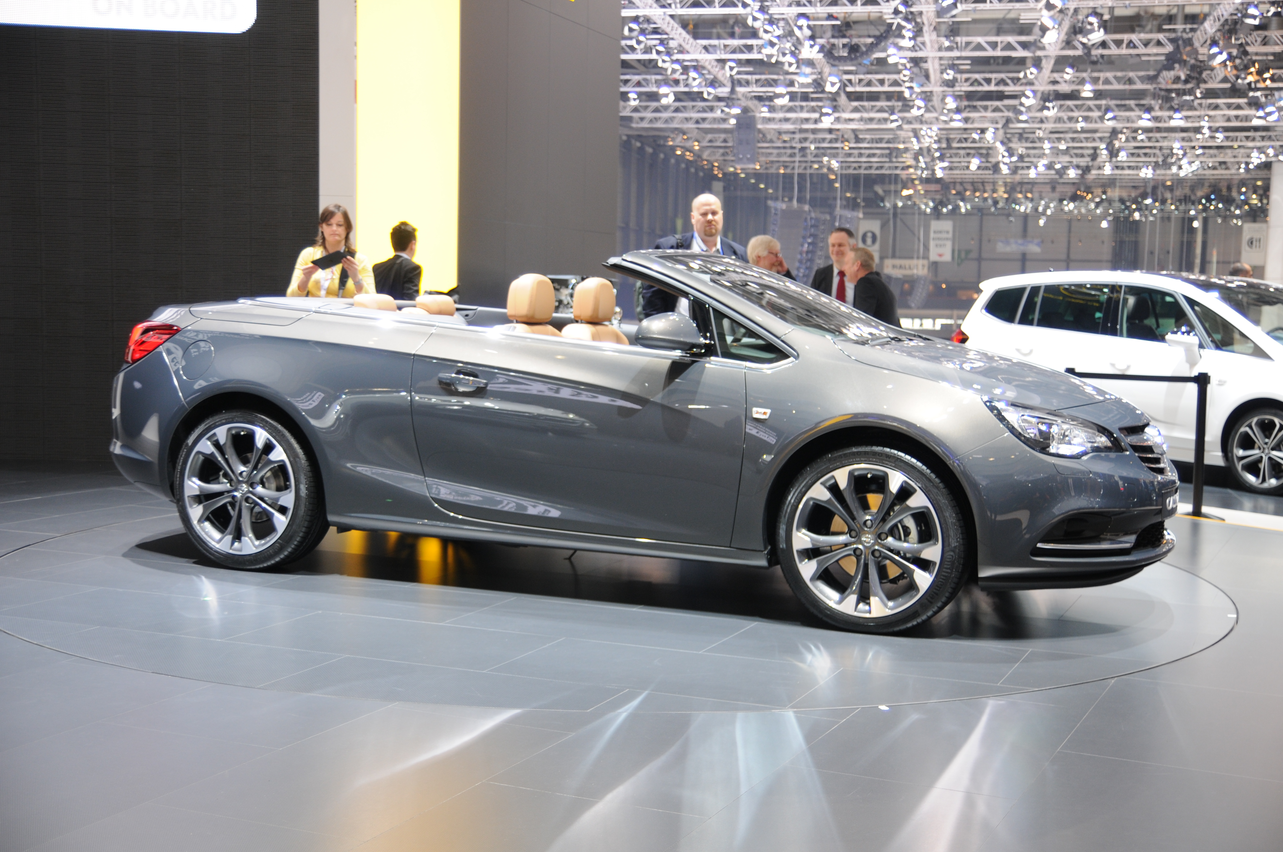 Geneva Motor Show 2013 (photos taken on the first press day)